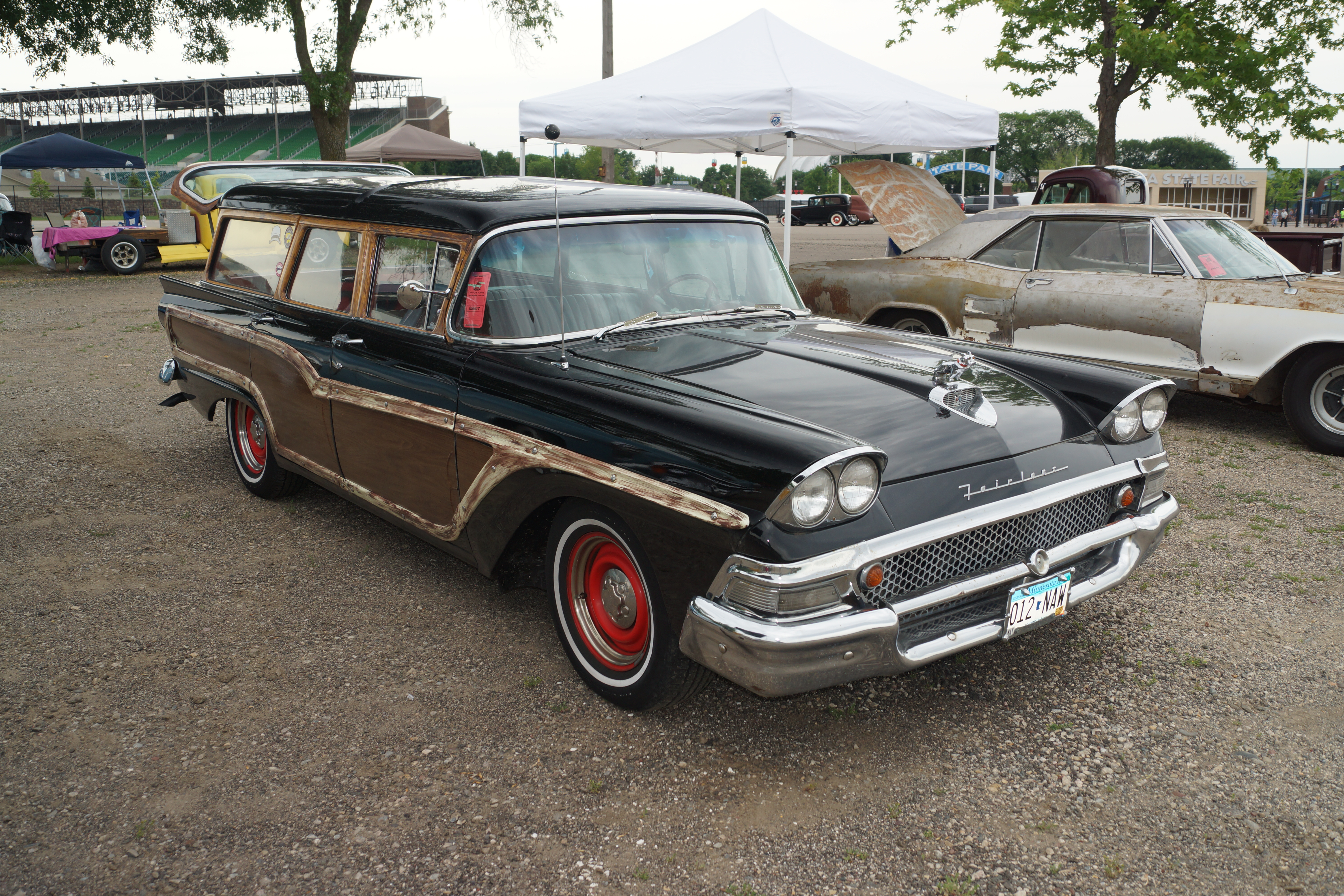 MSRA “BACK TO THE 50′s” 43nd Annual Car Show June 17-19, 2016 State Fairgrounds St. Paul Minnesota Click here for more car pictures at my Flickr site.